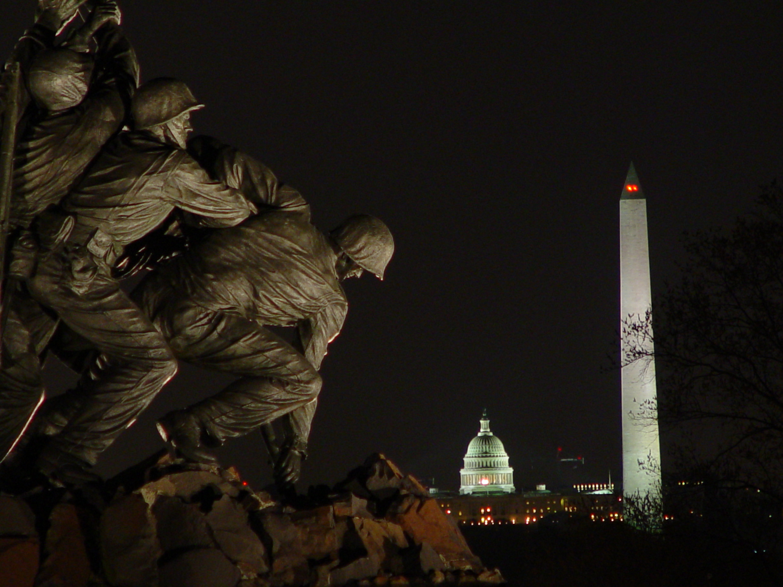 April 2004 Photo of Washington Monuments from Iwo Jima Memorial. This photo was take late at night on a cool calm night. The air was particularly still and clear. I remember driving down GW Parkway and thinking how I had to grab the camera and come back out. If you use the photo outside of this wiki environment, I ask that you add a note/link to this item's Talk page to document where it is being used.